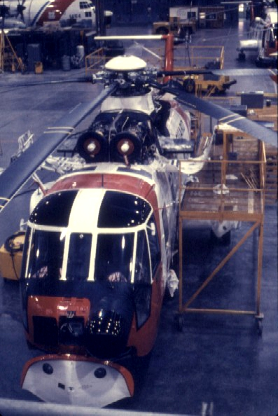 General Electric T58 engines in use on a U.S. Coast Guard Sikorsky HH-3F Pelican.